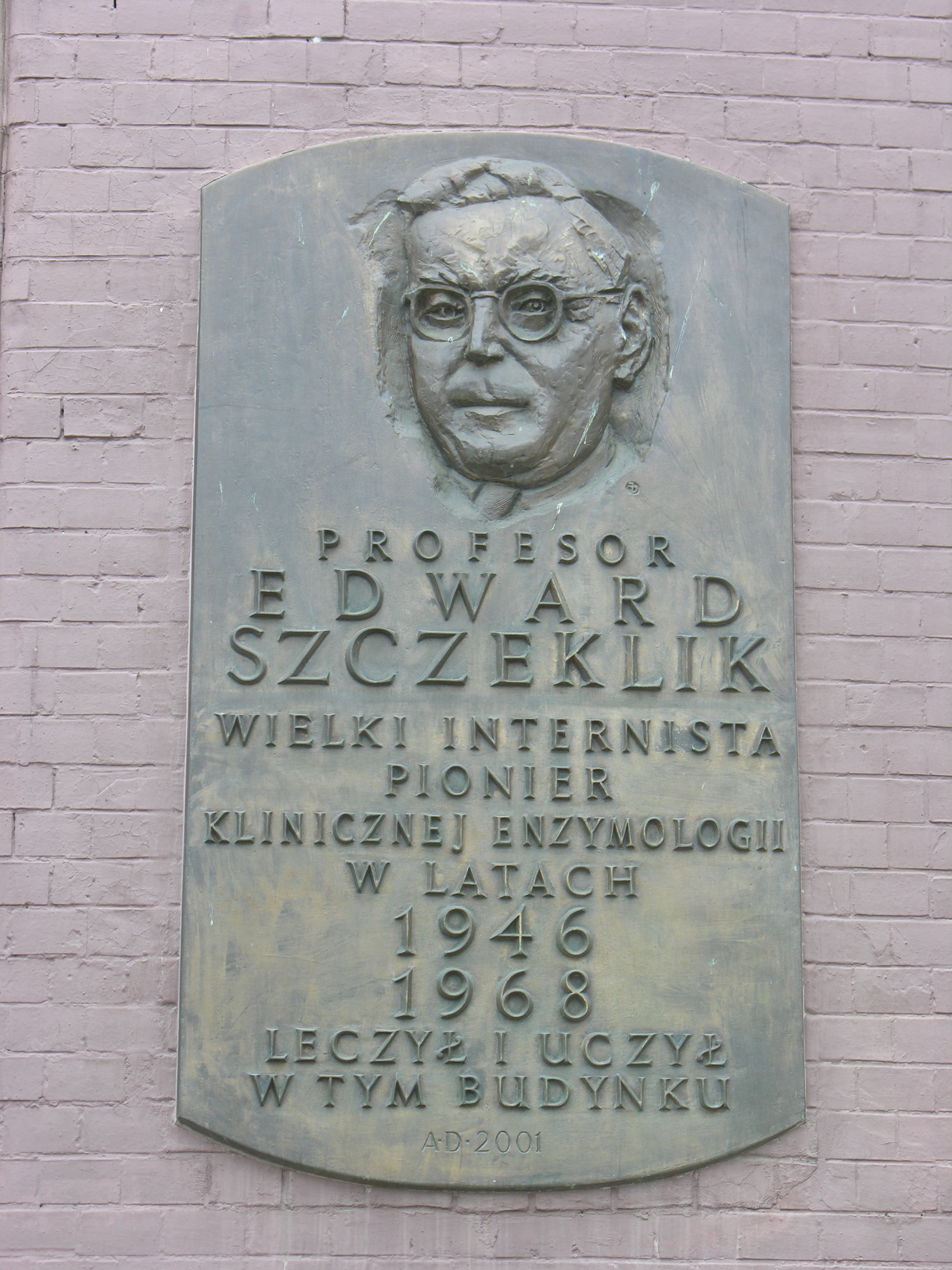 Tablica ku czci profesora Ewarda Szczeklka, Wrocław, ul. Pasteura 4